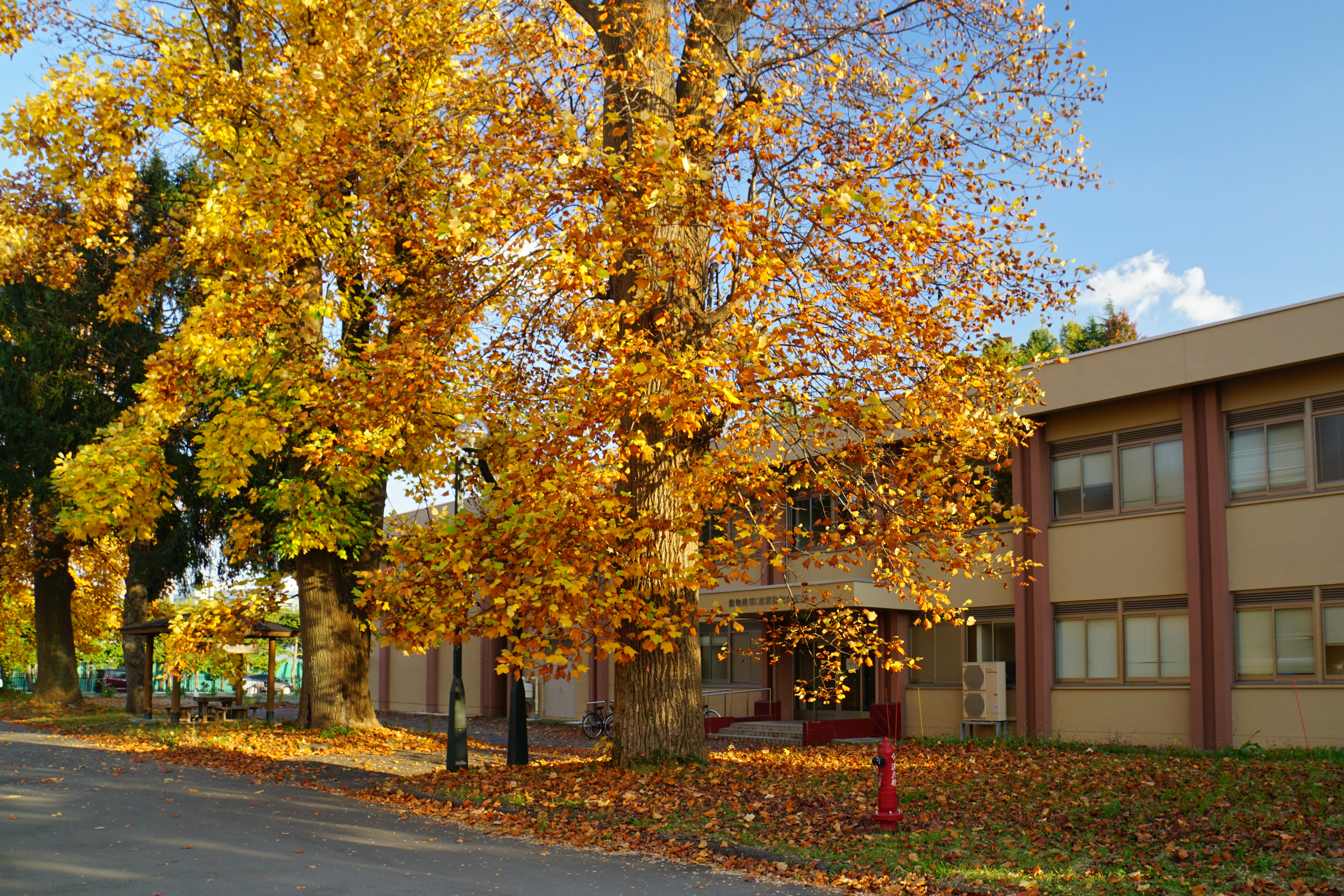 Iwate_University in Morioka, Iwate prefecture, Japan